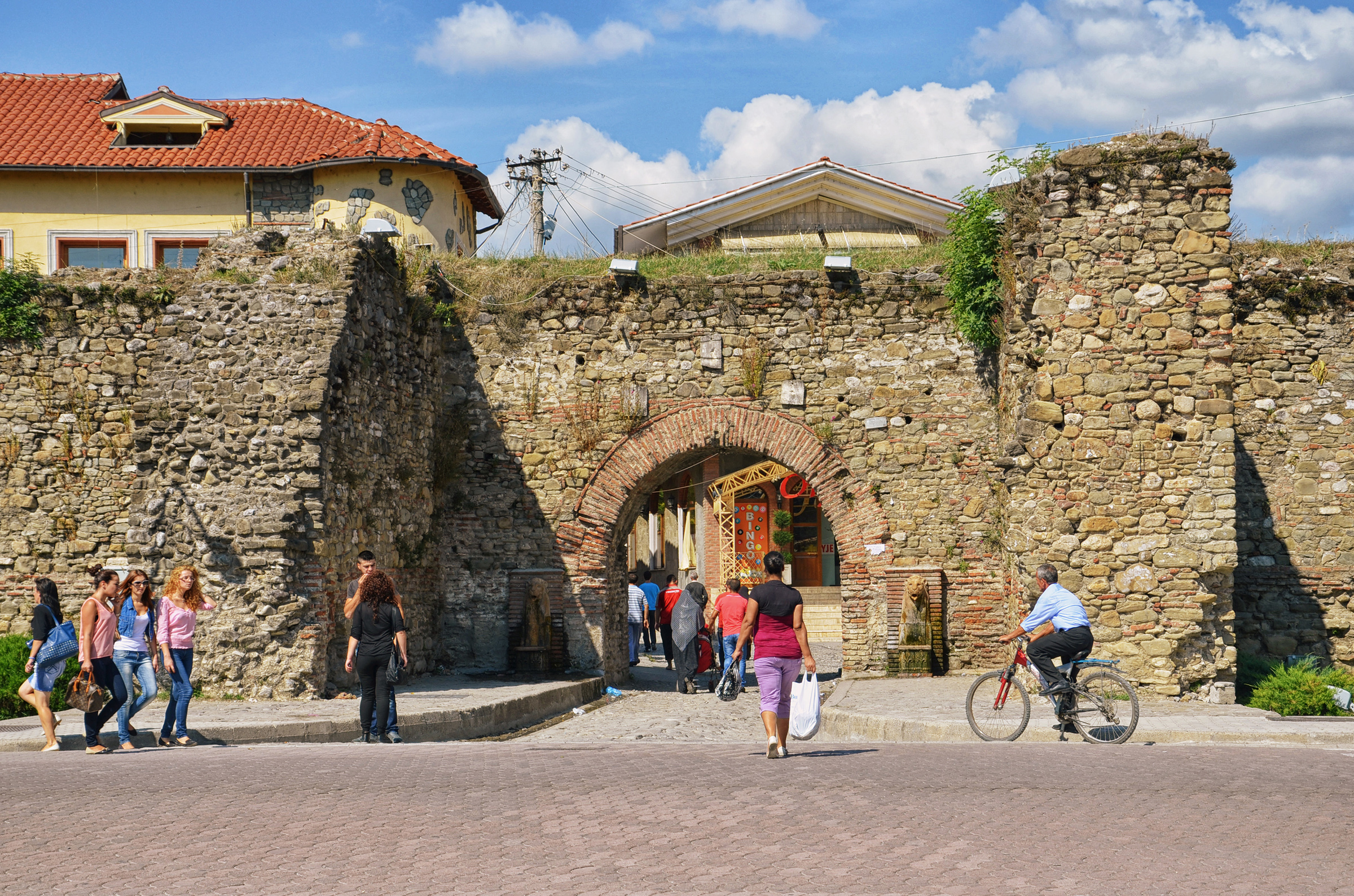 The southern gate (Bazaar Gate) of the Elbasan Castle